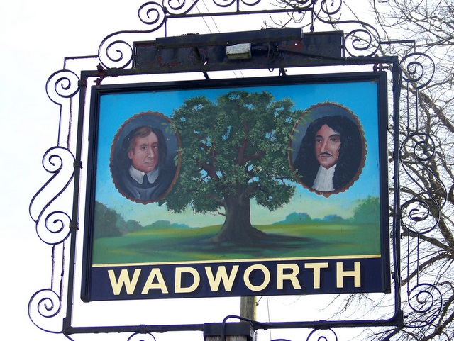 Sign for the Royal Oak, Corsley Heath The sign shows Charles II and Colonel Carless who hide in an oak tree to avoid detection by the Roundheads.